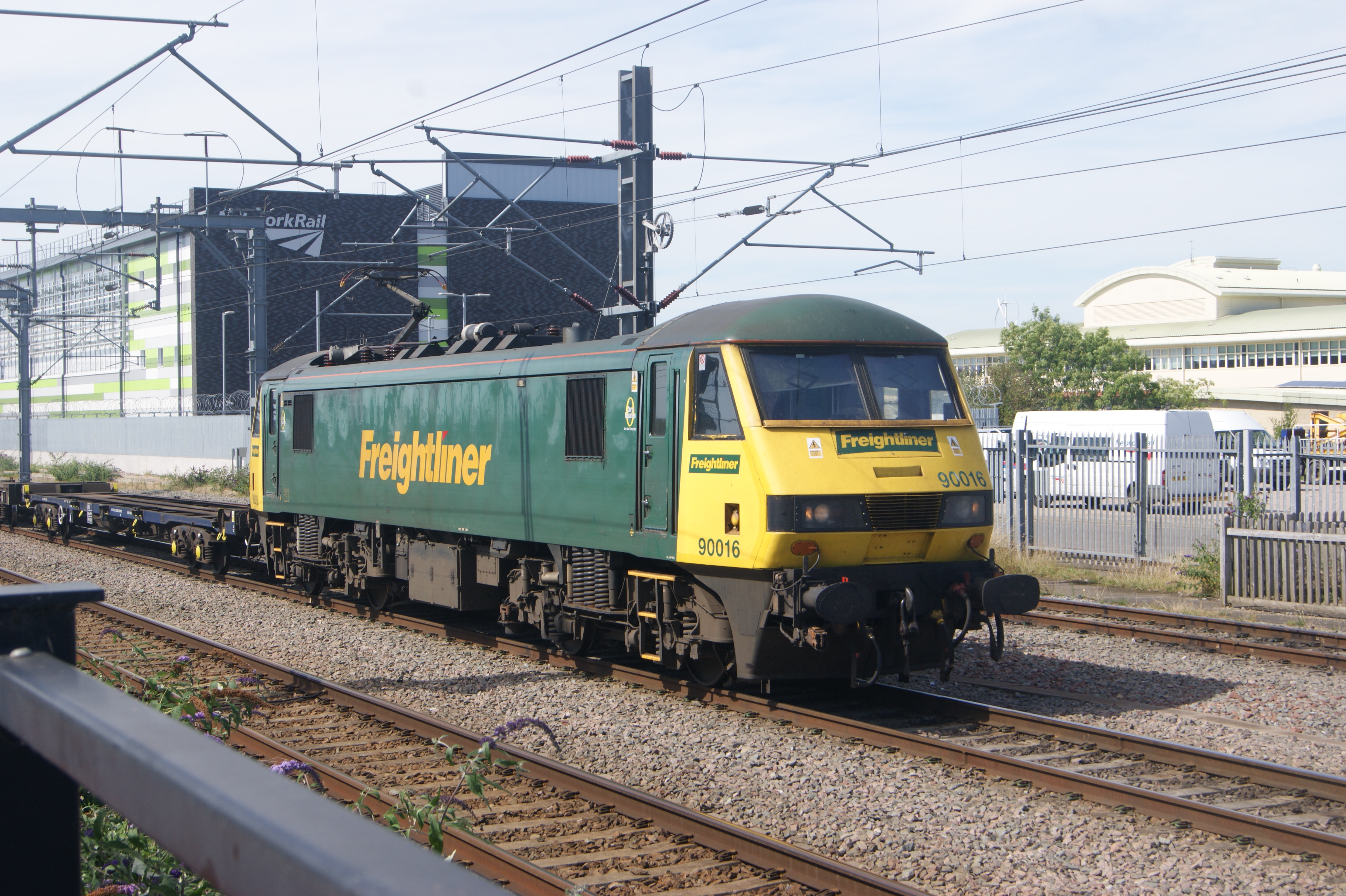 Freightliner's British Rail Class 90 no. 90016 waits outside Rugby railway station.